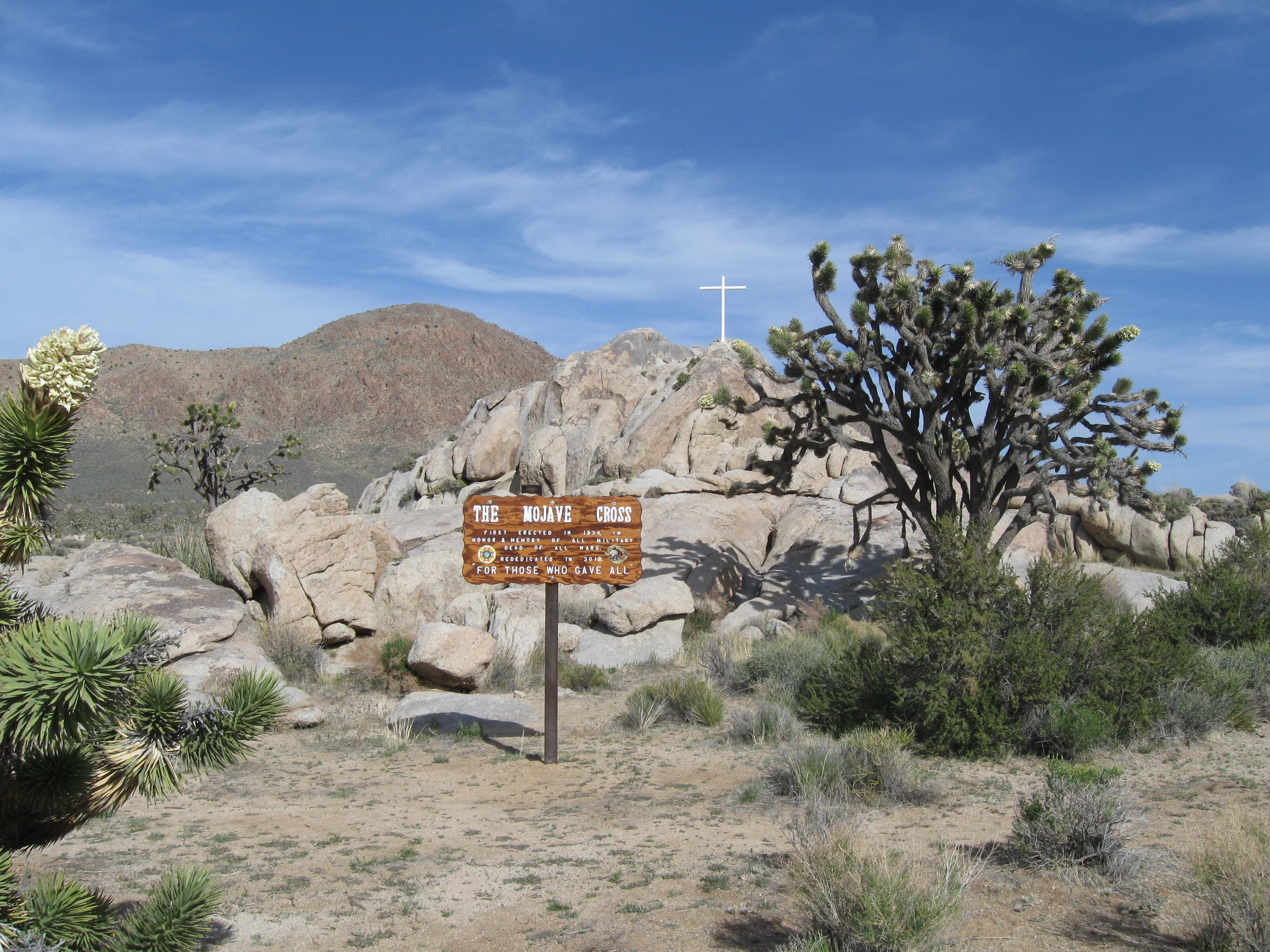 The Mojave Cross, is located on private land within the Mojave National Preserve. This photo was taken on April 13, 2013.